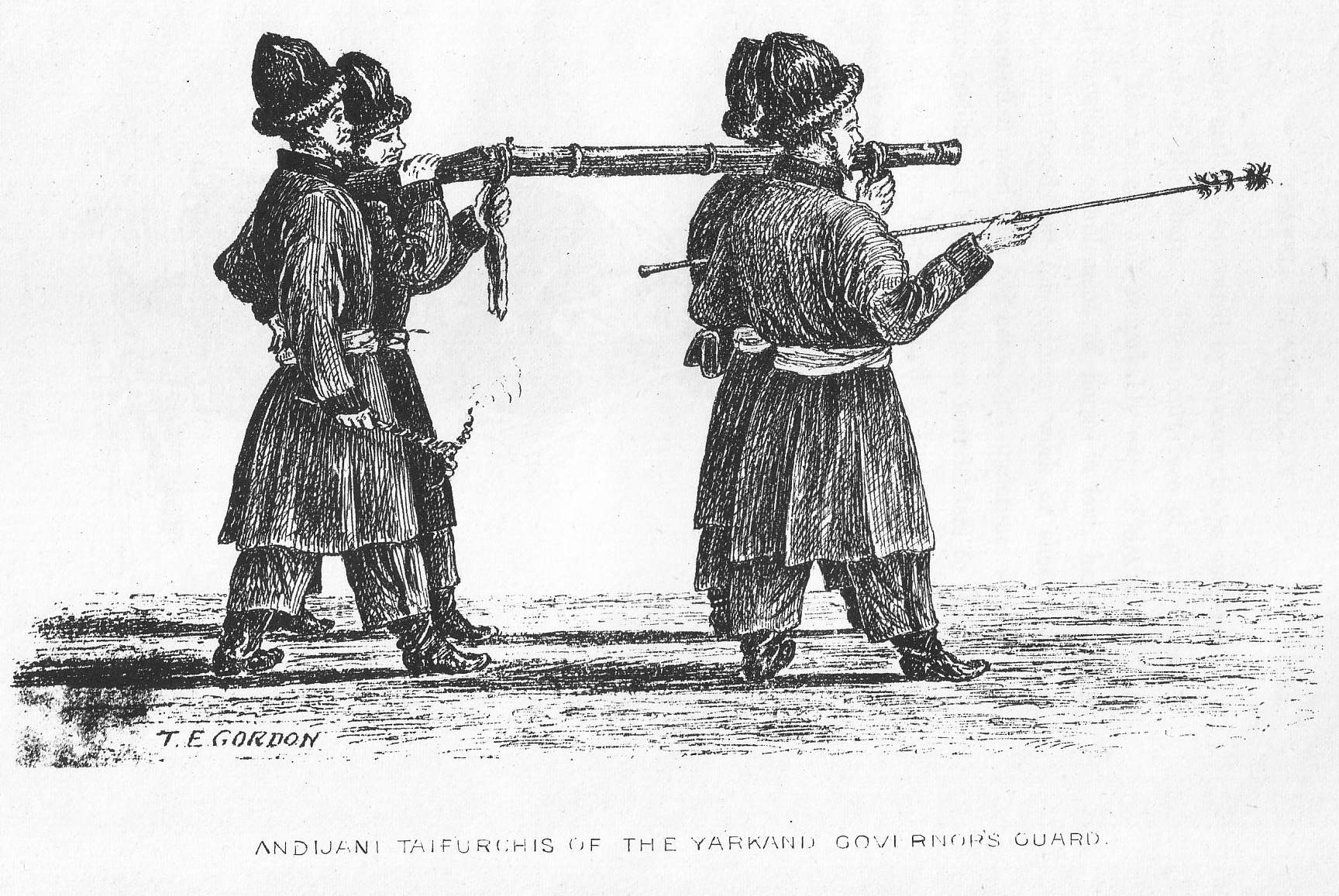 Original caption: "Andijani taifurchis of the Yarkand Governor's guard". (Soldiers of the governor's guard of Yarkand, then capital of independent Kashgaria, ca. 1870).